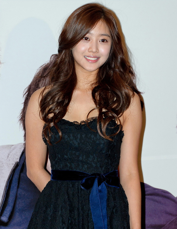 Jo Bo-ah at Shut Up Flower Boy Band (tvN, 2012) premiere, on January 25, 2012